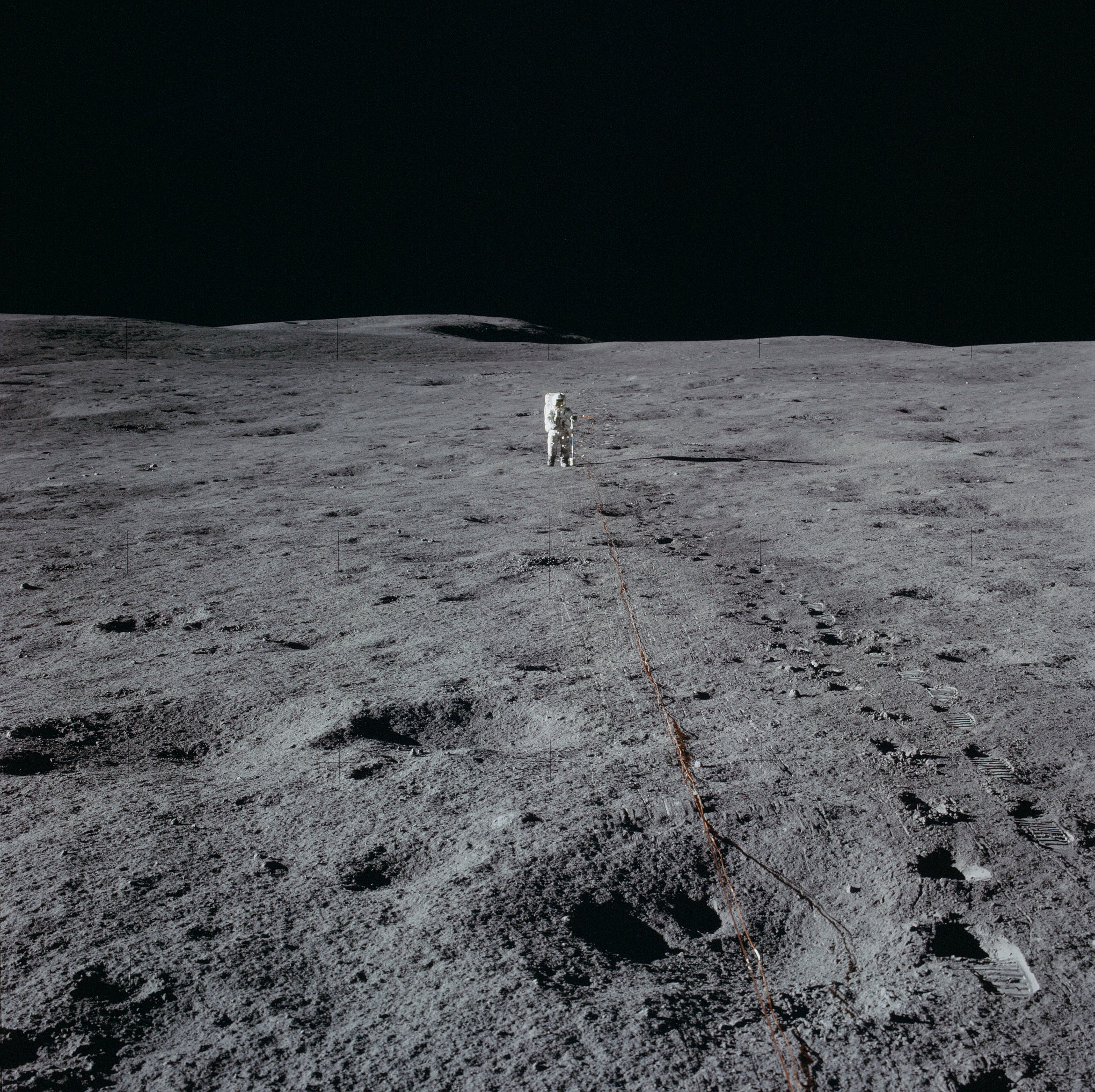 Lunar Module Pilot Edgar Mitchell lays out the geophone line on Apollo 14.